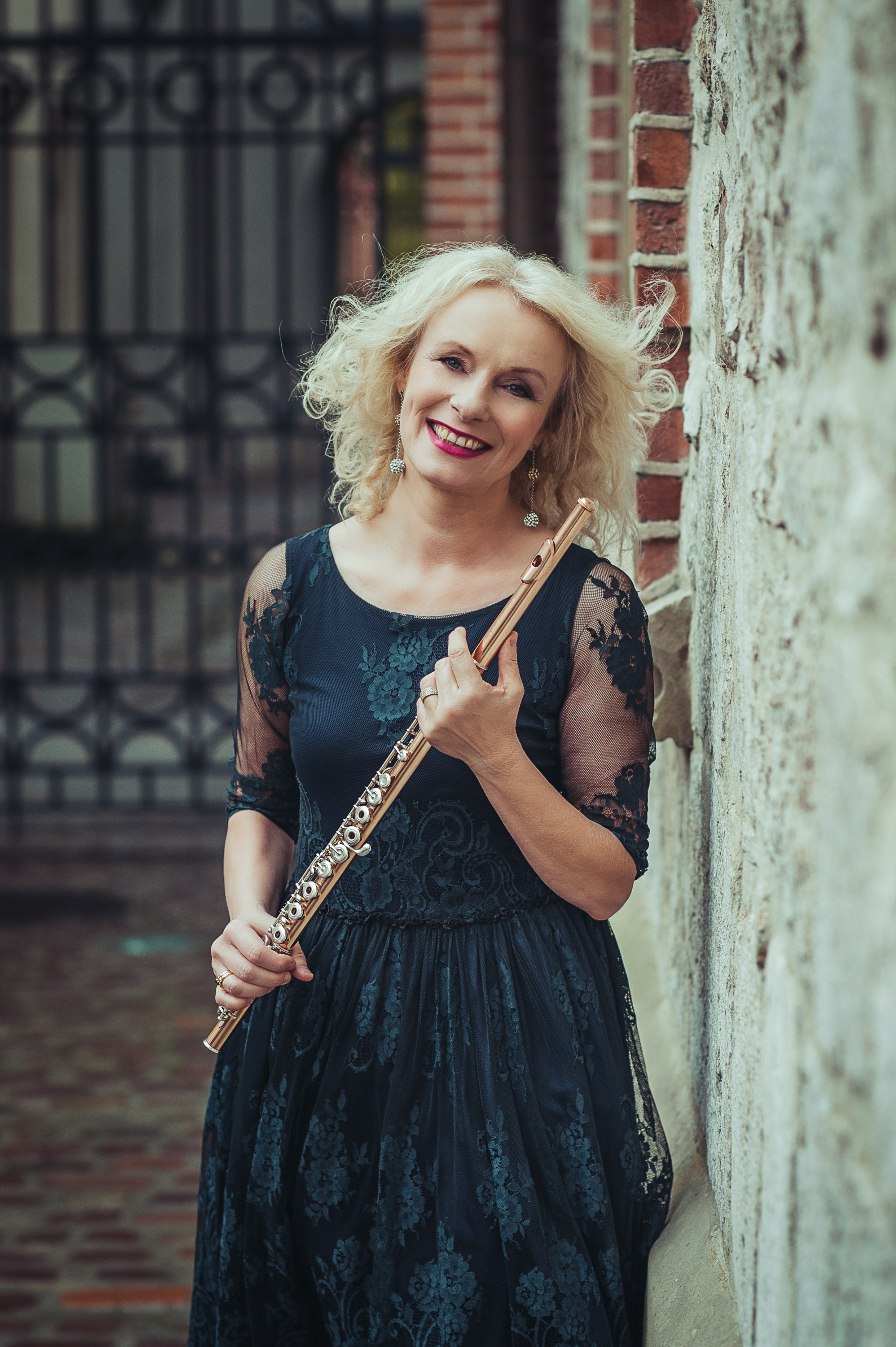 German Flute Player